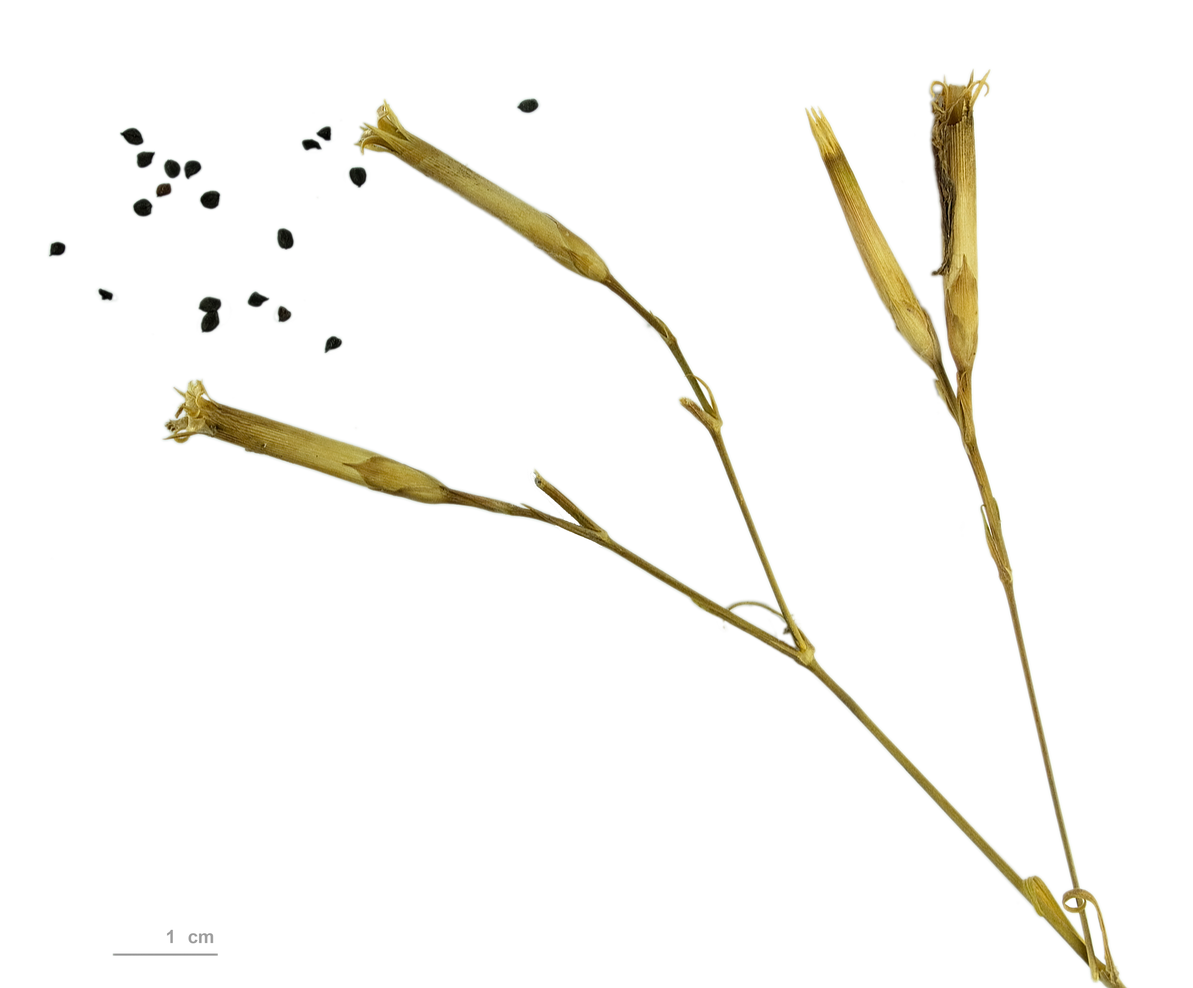 Large Pink , fruits and seeds